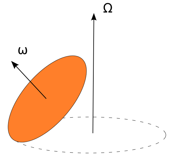 mechanics of Euler's disk, showing rotation and precession axial vectors